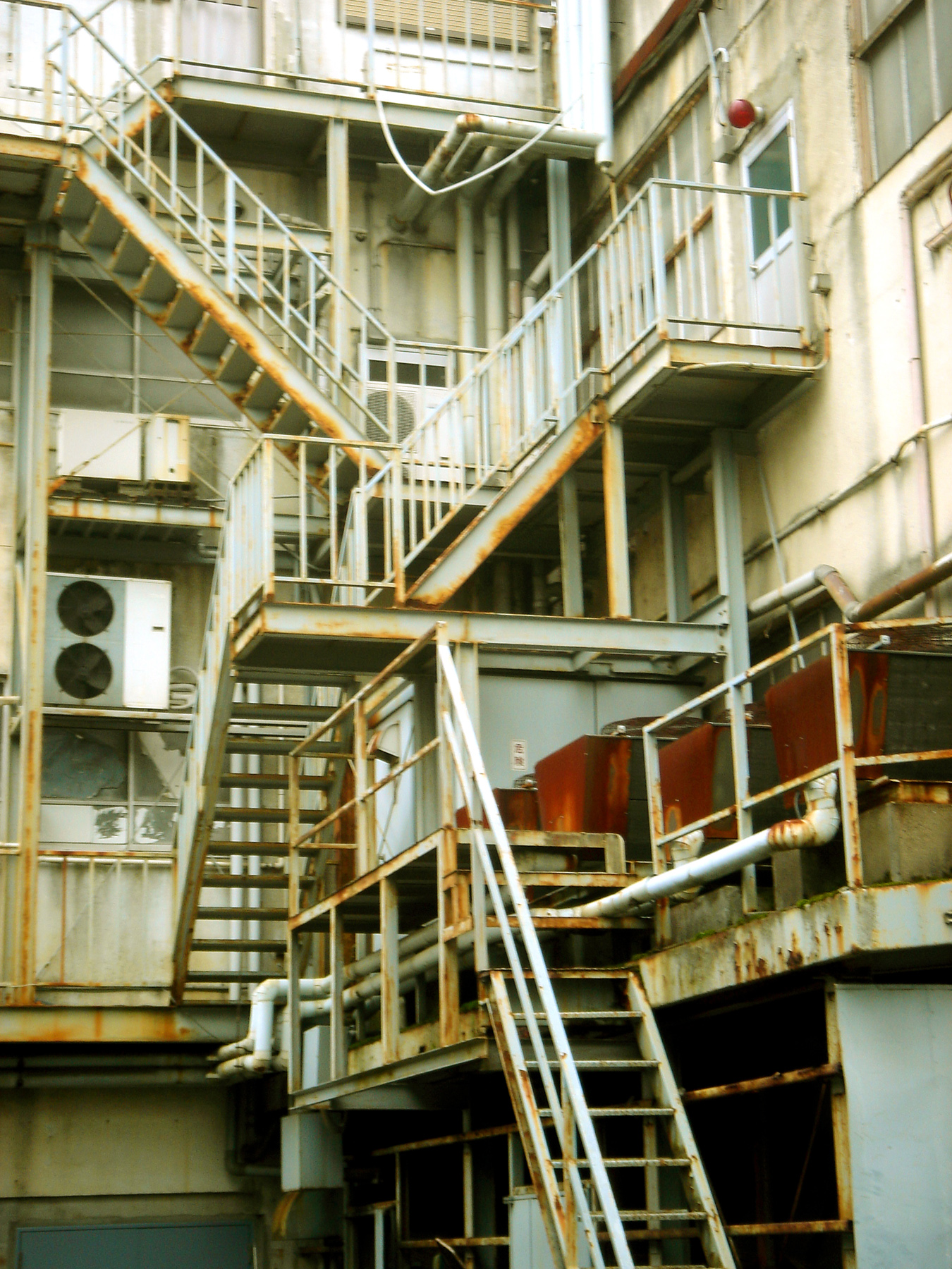 rusty stair casesStaircases